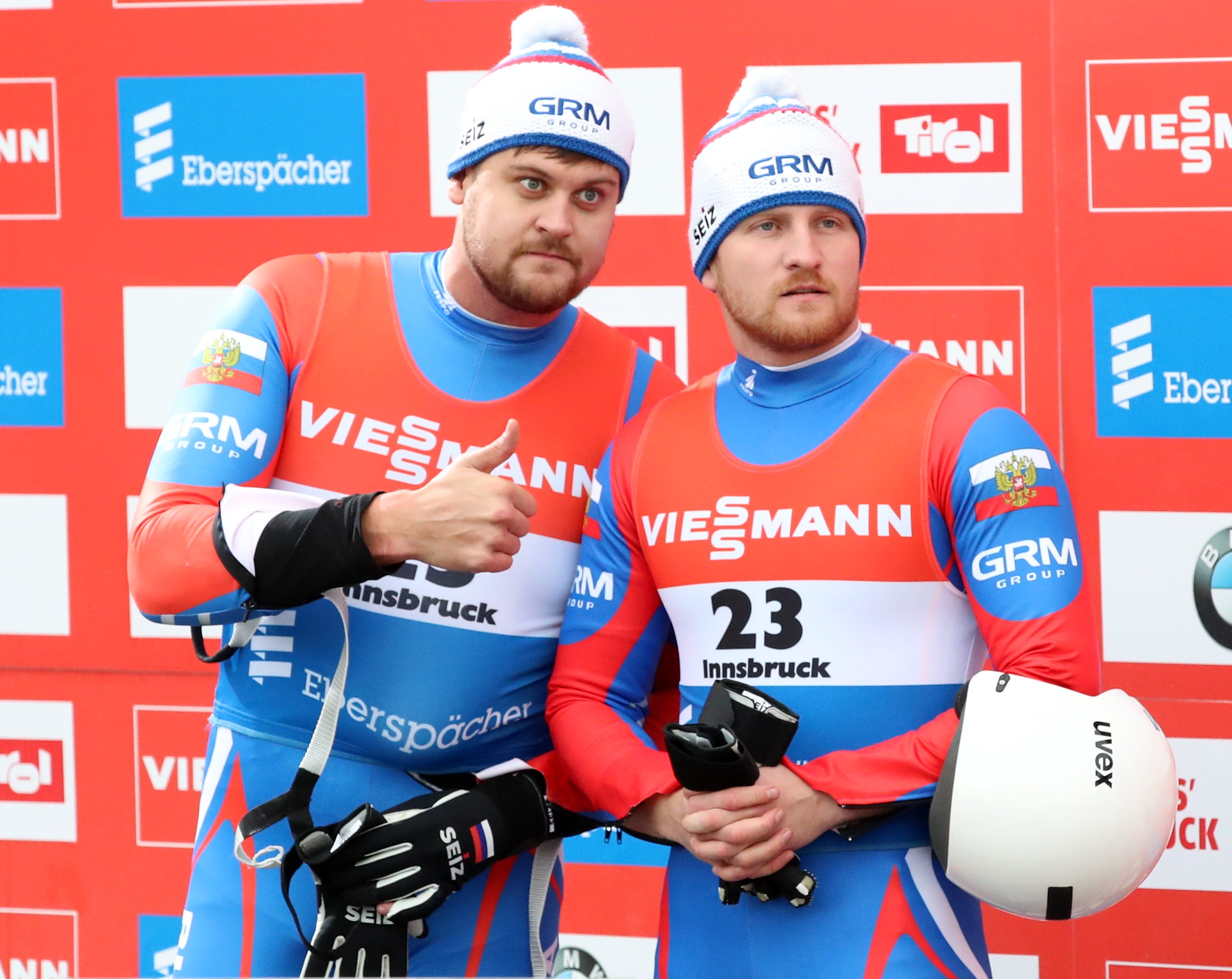 Doubles World Cup race at the 2019/20 Luge World Cup in Innsbruck-Igls